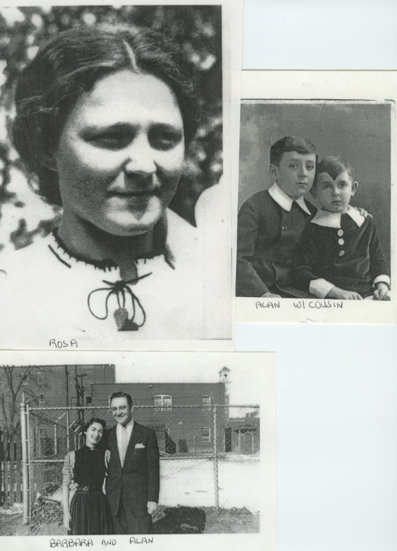 Frau Rosa Schreiber, 1946